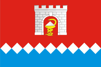 Flag of Sol'-Iletsk, Orenburg oblast, Russia